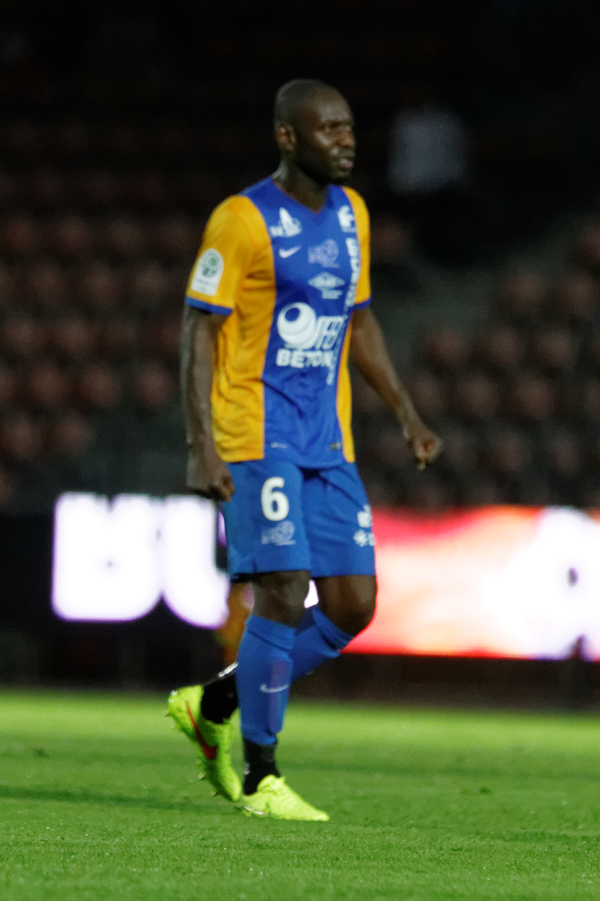 Créteil vs Châteauroux, 8th August 2014.